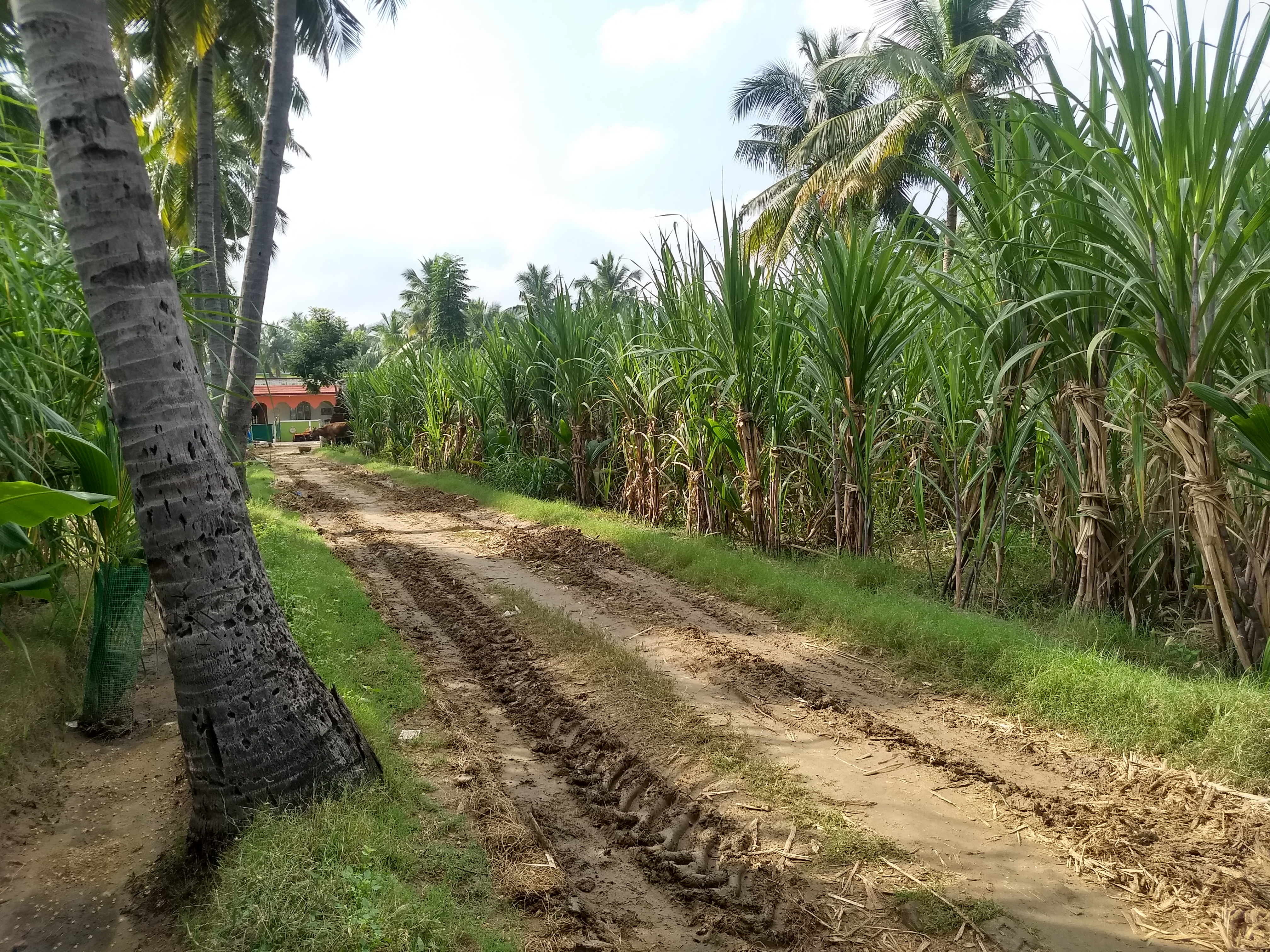 Palar River Flow